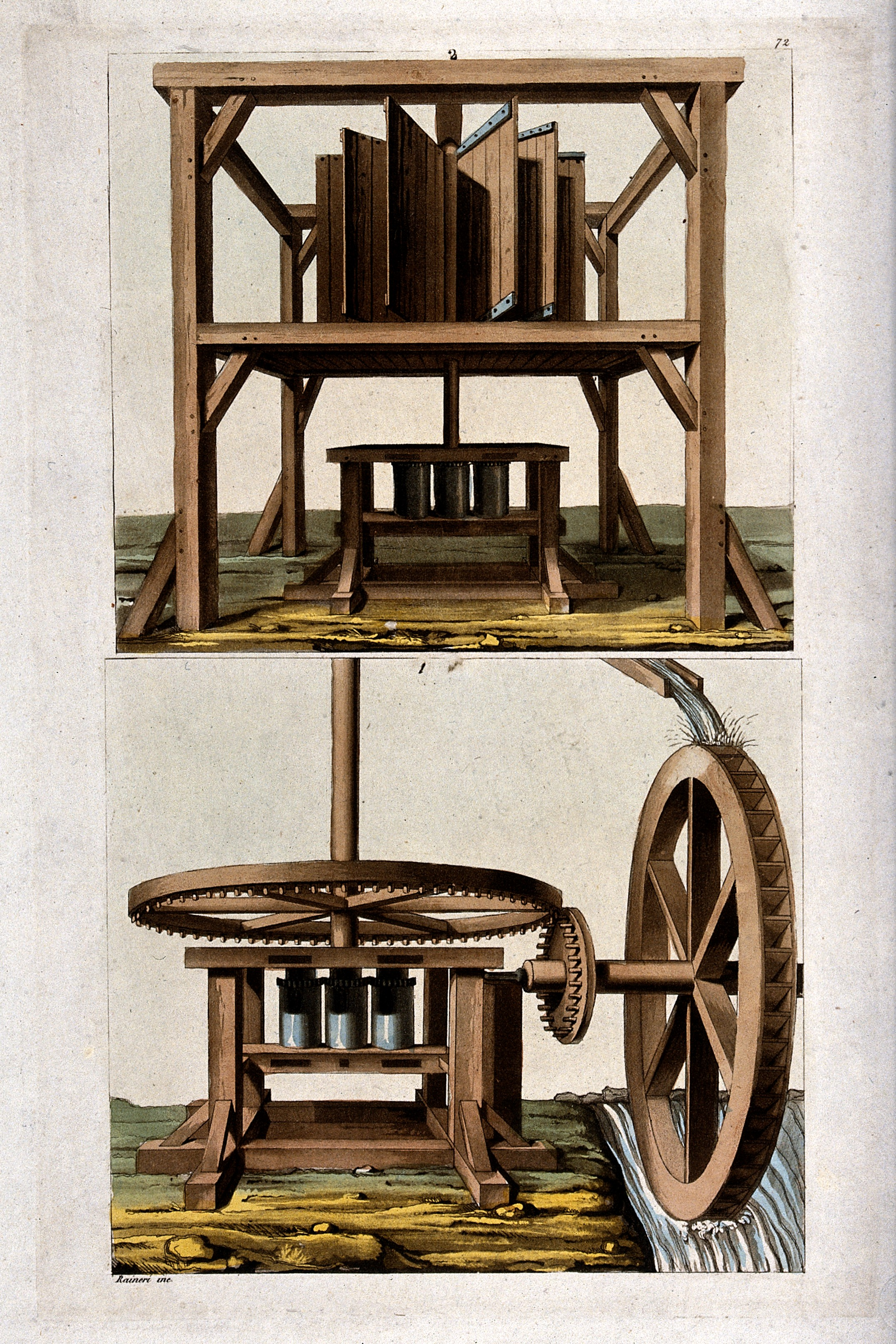 A wind-operated mill (top), and the same mill water-operated (below). Coloured aquatint by Ranieri. Iconographic Collections Keywords: Ranieri